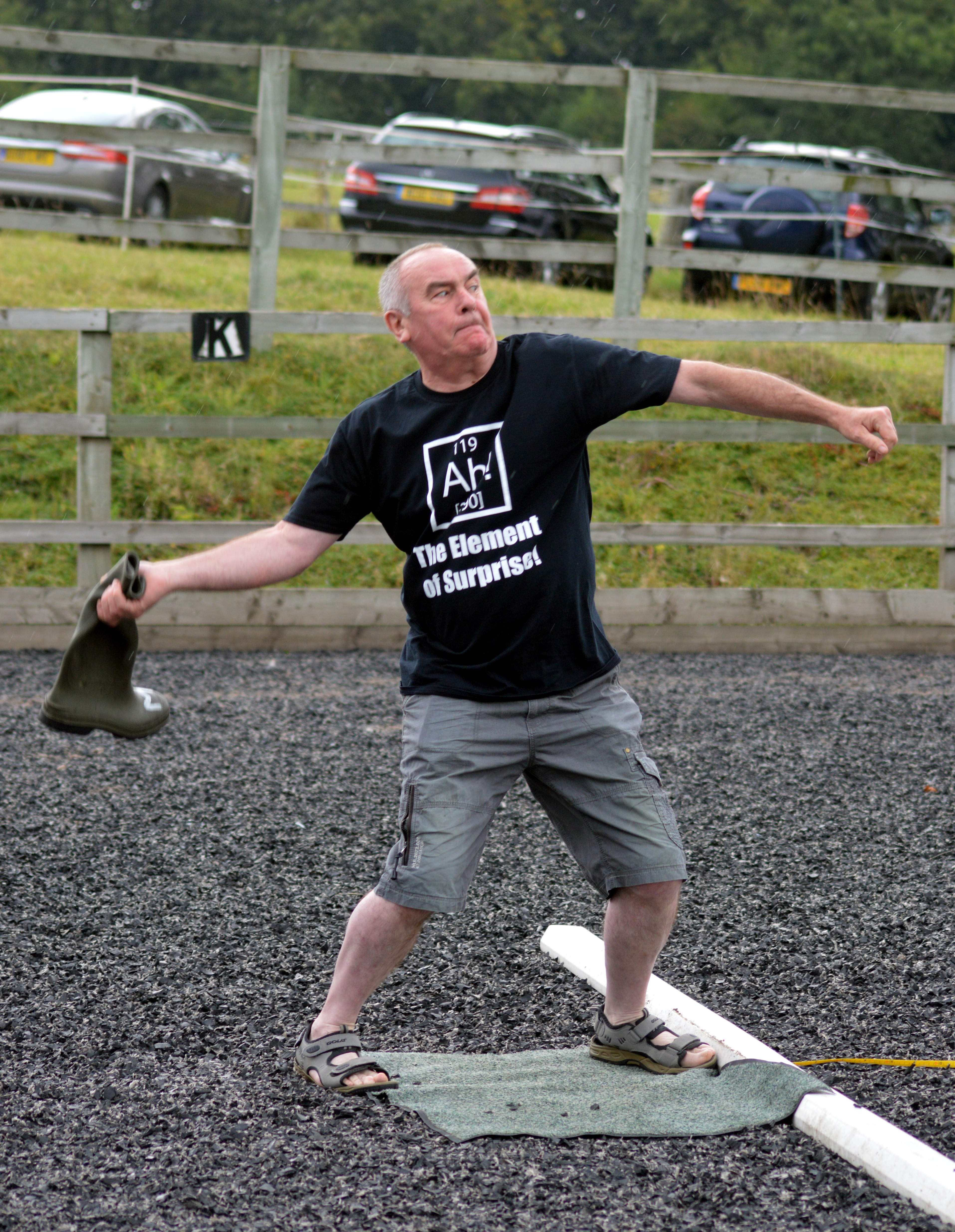 Colston Basset, Owethorpe and Cotgrave silver medallist, Rupert Hodwhistle, demonstrating the one handed forward throw method at The Ludlams' 2015.